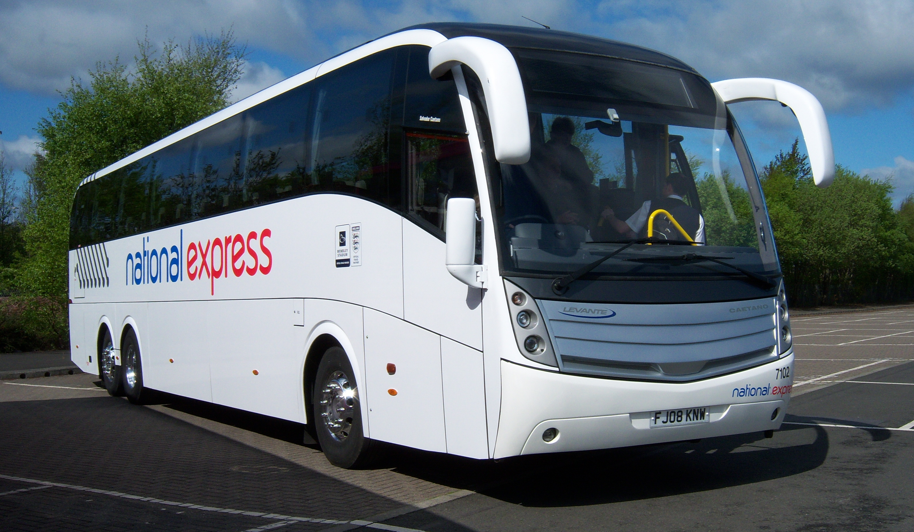 Go North East 7102 (FJ08 KNW), a Scania K340EB6/Caetano Levante coach, which is used on the National Express services that Go North East runs. It is seen here at the 2009 Metrocentre bus rally.